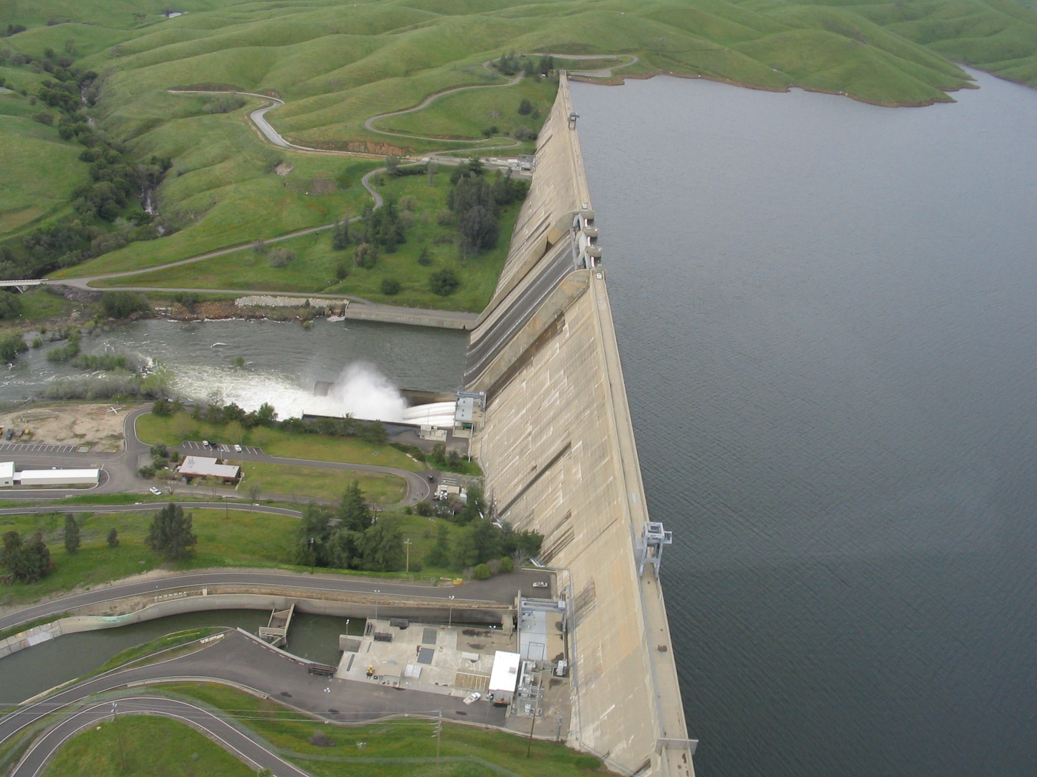 The Friant Dam, north of Fresno, filled to the top. Downstream flooding ensued. California, San Joaquin Valley, Friant Dam area.